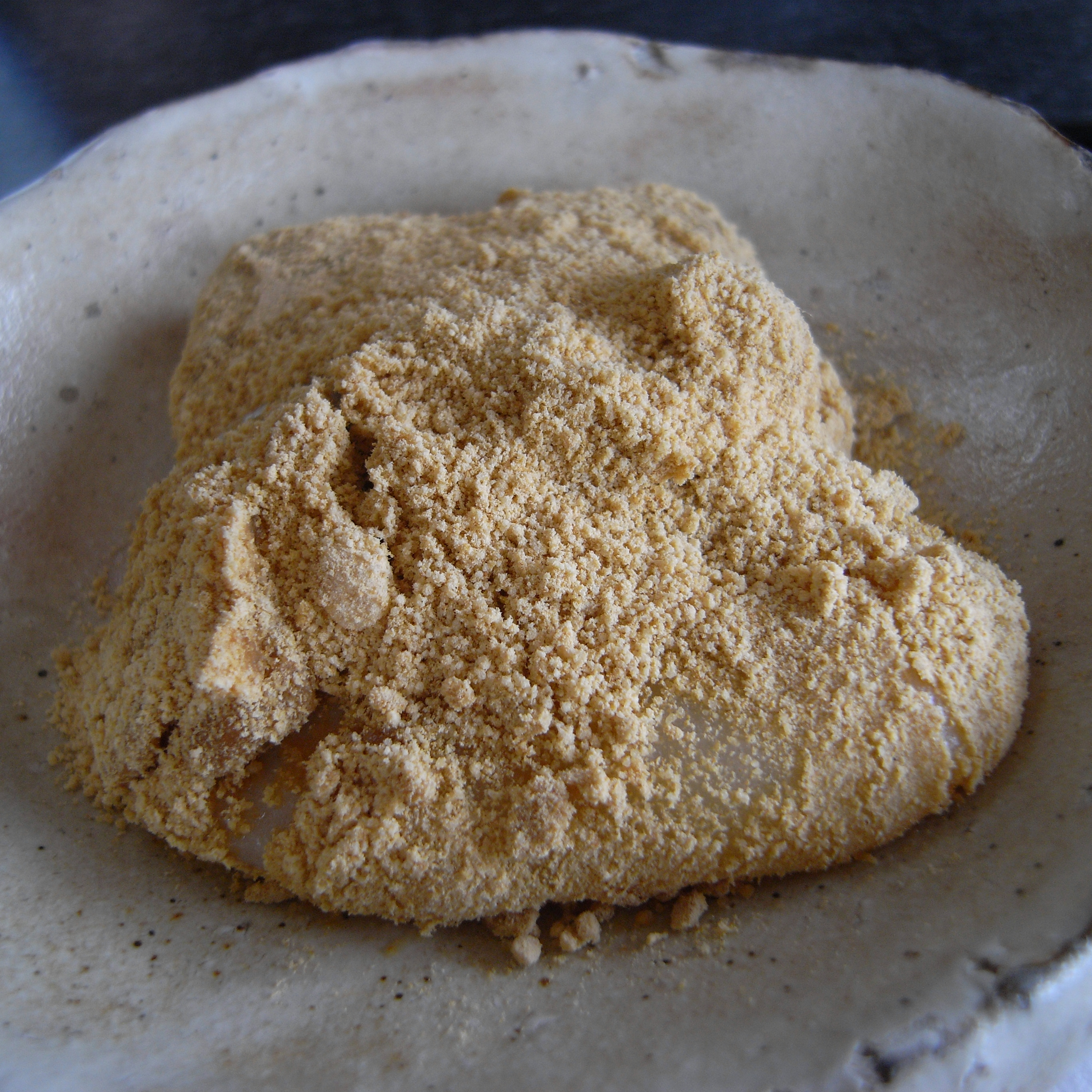 Abekawa Mochi